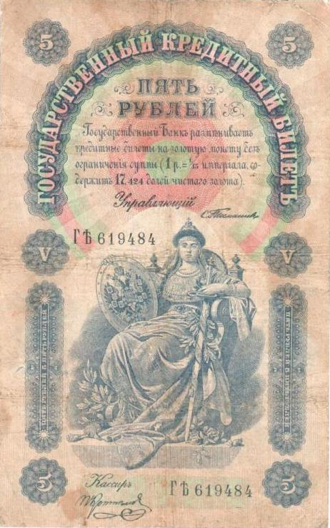 Russian Empire banknote 5 rubles version of 1898 year. Signatures: Chief Director -Timasev, cashier - Koptelov. Serial: ГЪ 619484. Front(avers)